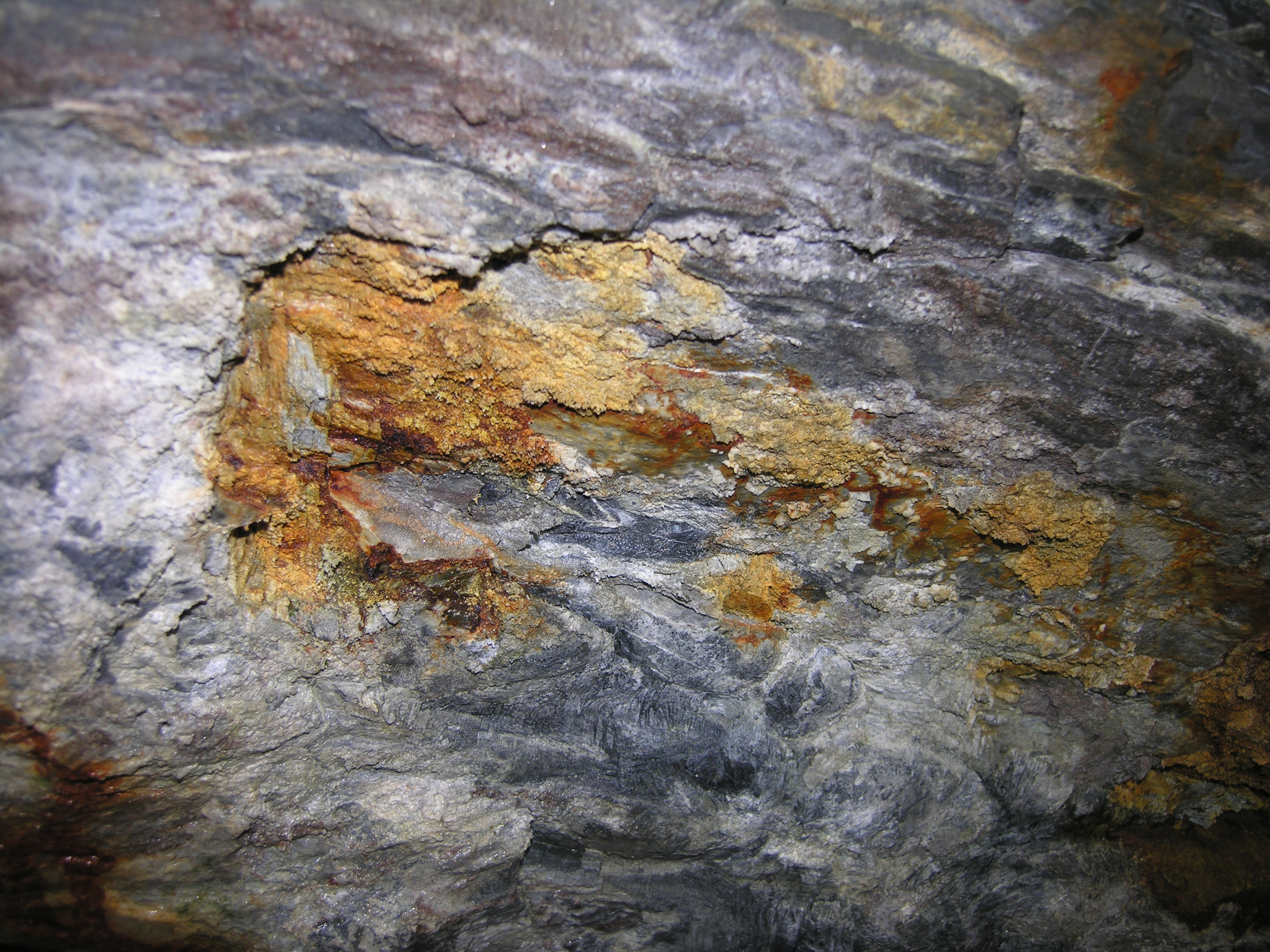 Iron impregnations in the limestone